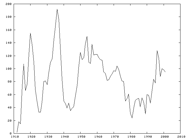 A graph showing UK film production 1912–2001, created by User:Jihg. It is based on data obtained from the British Film Institute website.